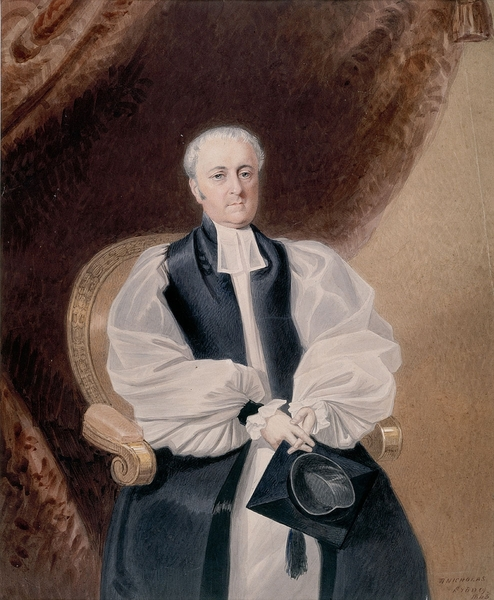 Portrait of Bishop William Grant Broughton (1788-1853)/ W. Nicholas